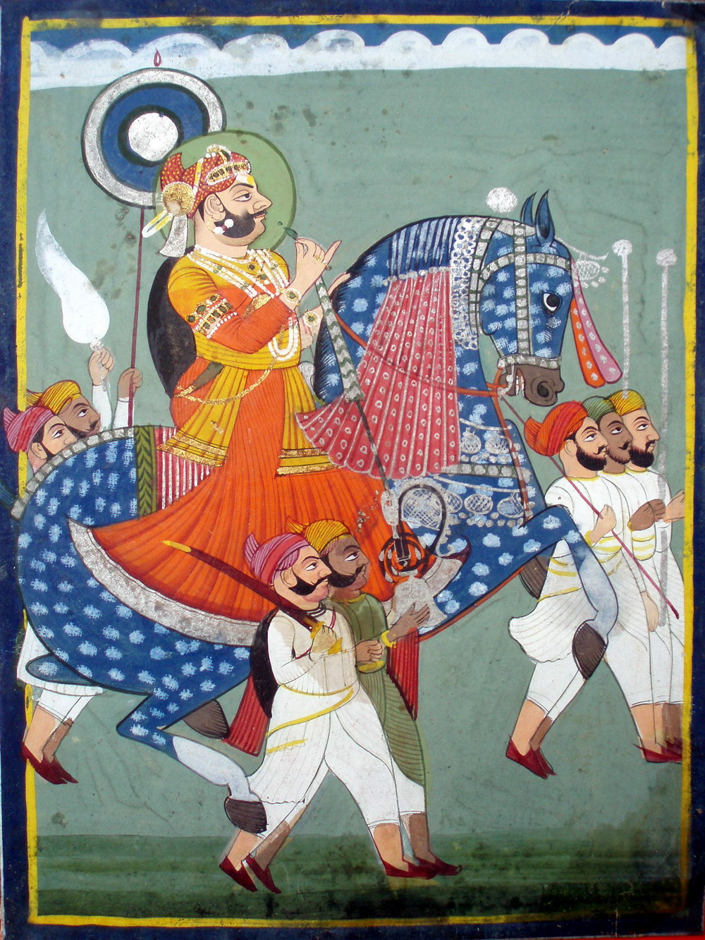 Equestrian portait of Maharaja Man Singh of Jodhpur, from between 1820 to 1840. The Maharaja rides his dappled horse whilst smoking a silver hookah, held by an attendant in the foreground, where another carries a sword. To the front of the horse - between its raised hooves, actually! - are three other attendants, two with silver staffs and one with a spear. To the rear are two more attendants, one with a chauri - fly whisk - the other with a disc-shaped banner with concentric circles of blue and silver.